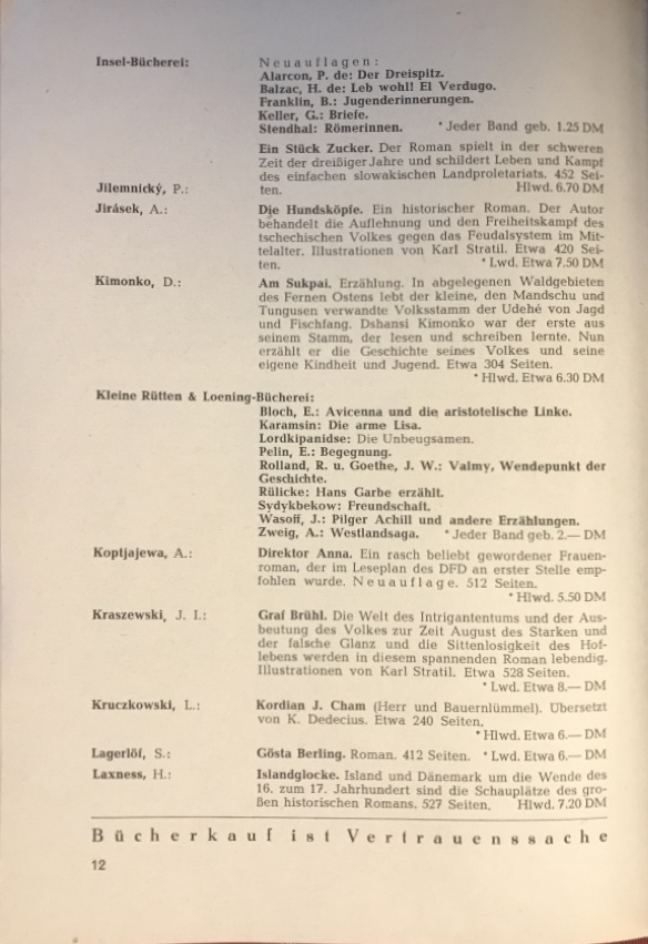 Page 12 of an advertisement of the bookshop Franz-Mehring-Haus in Leipzig from 1952, listing 5 current titles of the Insel-Bücherei (new editions)